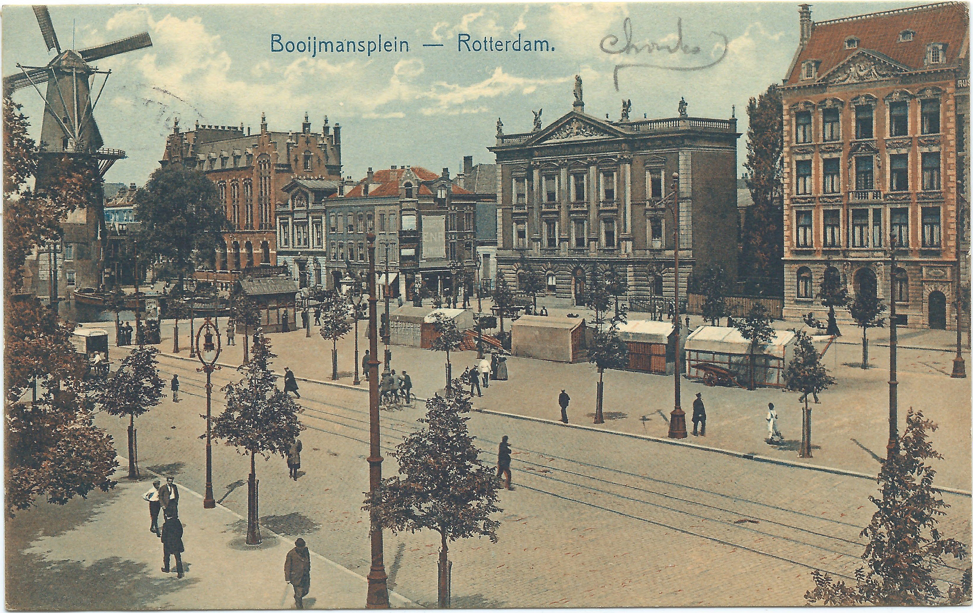 The former square named Booijmansplein in Rotterdam